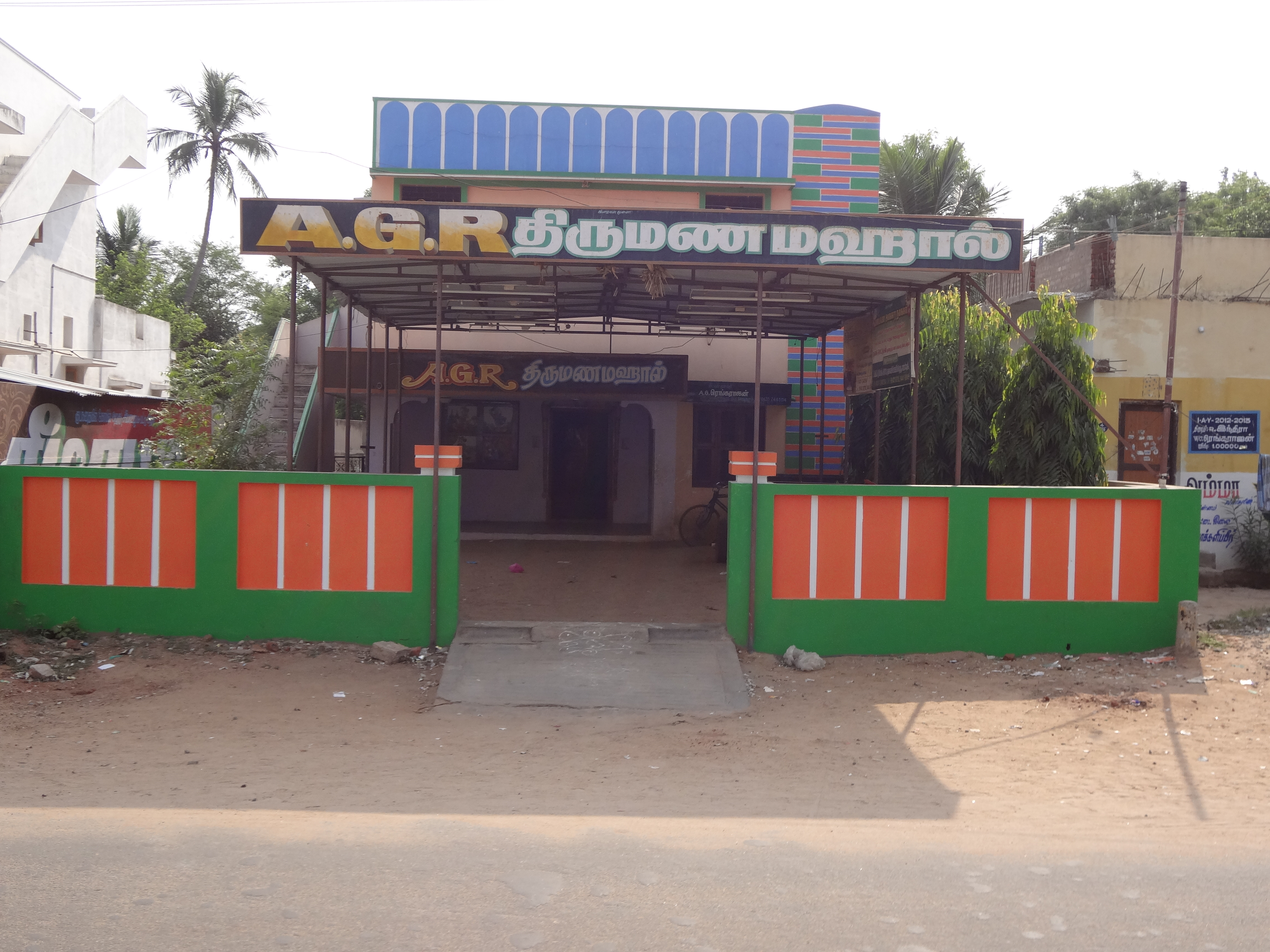 A.G.R. Thirumana Mahal, Anna Salai, Patteeswaram.